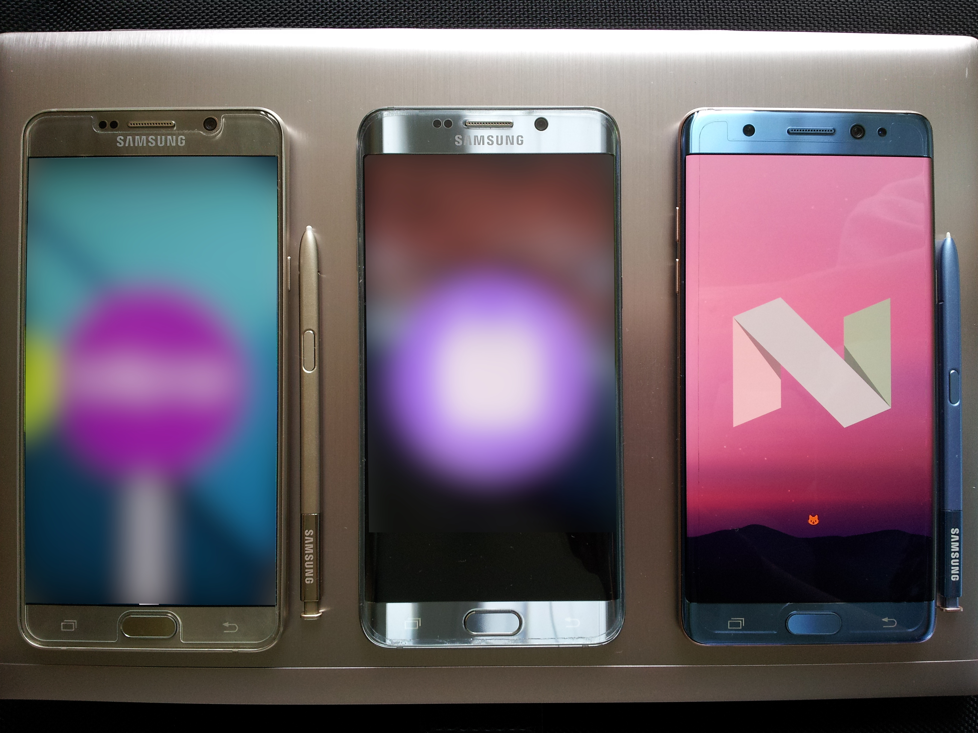 Samsung Smartphones Samsung Galaxy Note 5 (with Android 5.0 Lollipop) Samsung Galaxy S6 edge+ (with Android 6.0 Marshmallow) Samsung Galaxy Note 7 (with Android 7.0 Nougat)